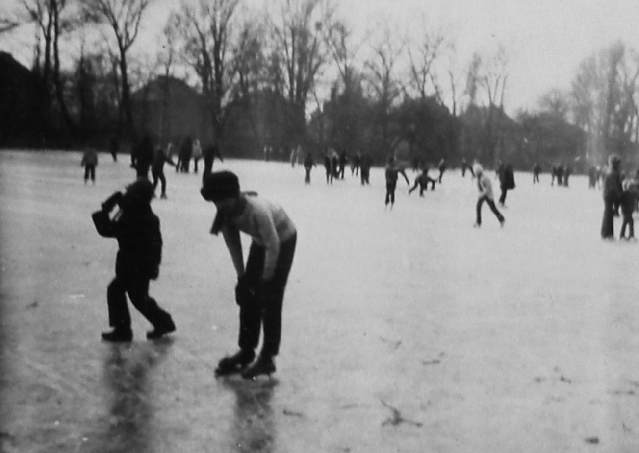 Solacz Pond. Poznan. About 1975.